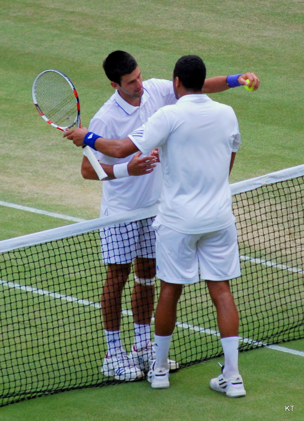 Novak Djokovic and Jo-Wilfried Tsonga at the end of their semi-final. Djokovic won 7-6, 6-2, 6-7, 6-3, on his way to his first Wimbledon title. Day 11 of Wimbledon 2011.